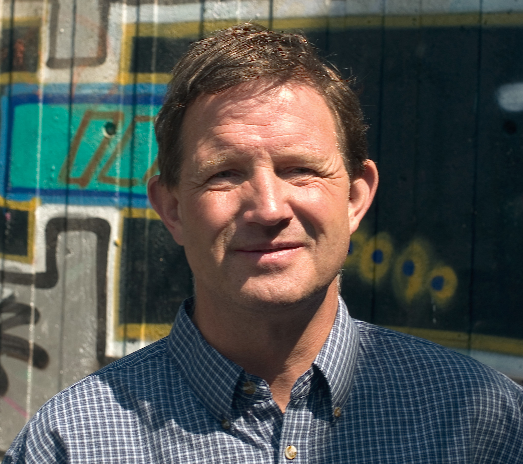 Dutch linguist Pieter Muysken (1998)